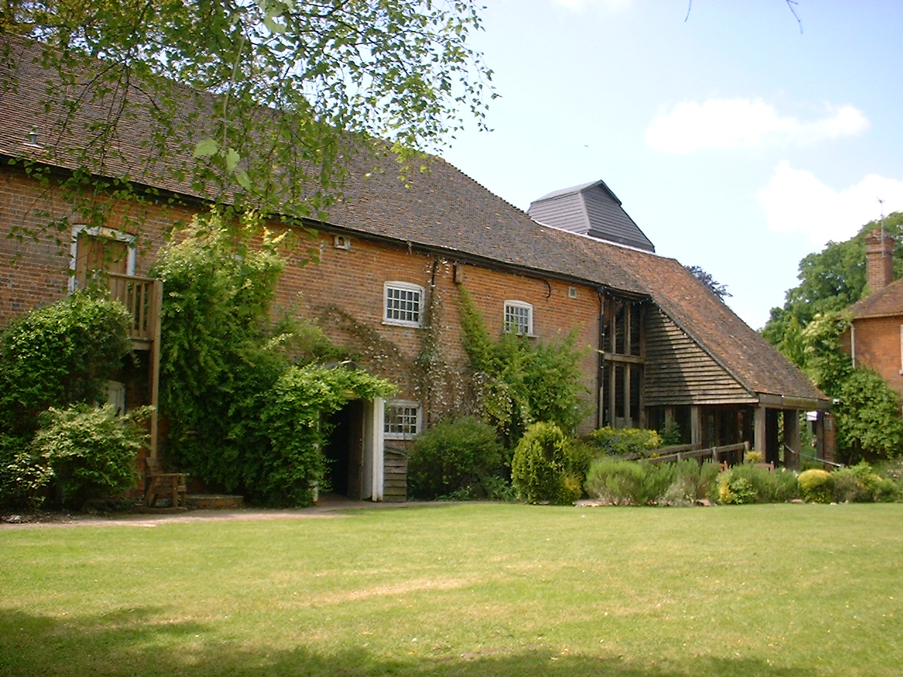 Author: Jen Shepherd